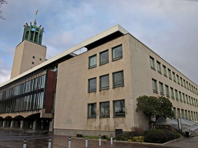 Civic Centre, Newcastle Upon Tyne